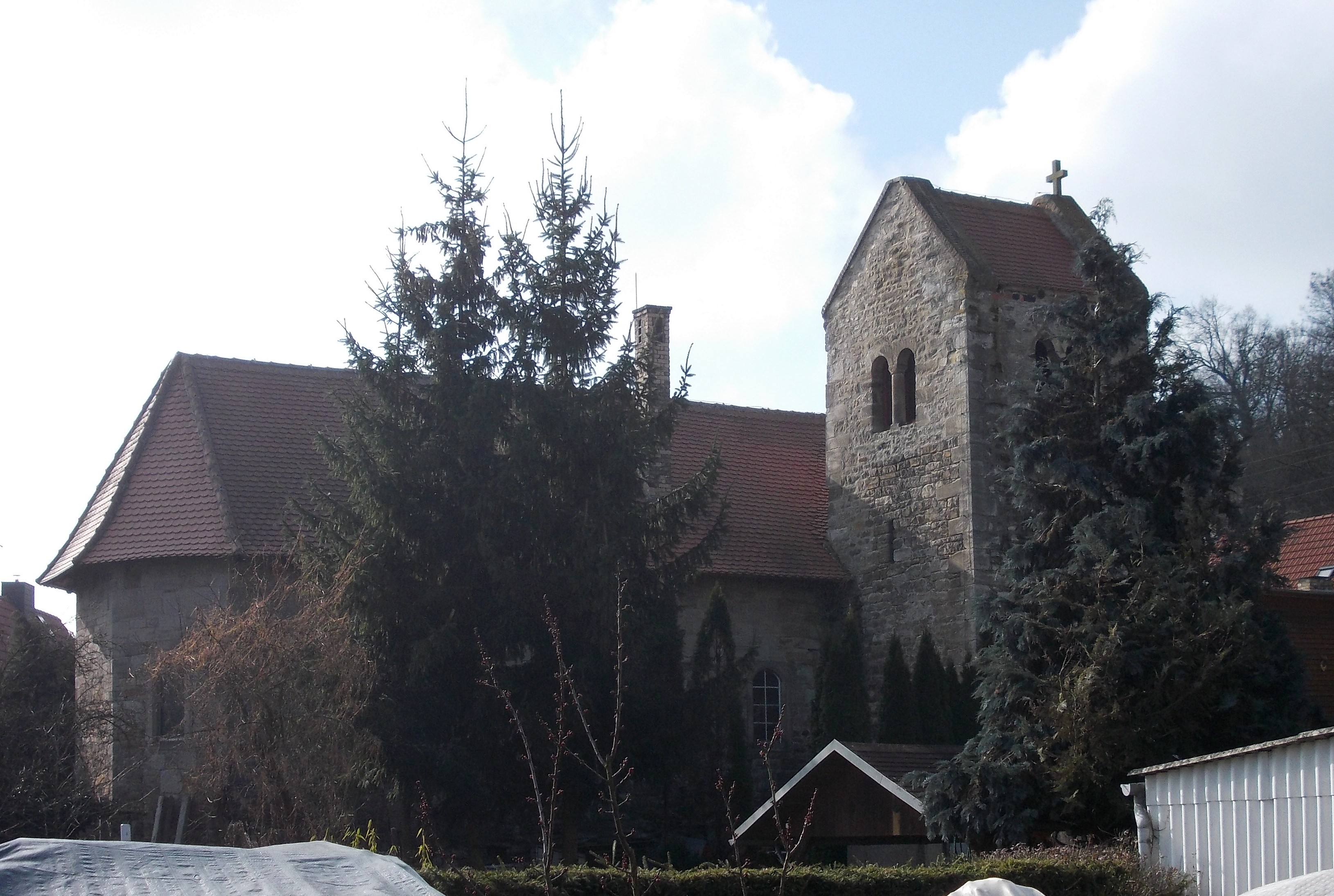 Pfützthal church (Salzatal, district: Saalekreis, Saxony-Anhalt)